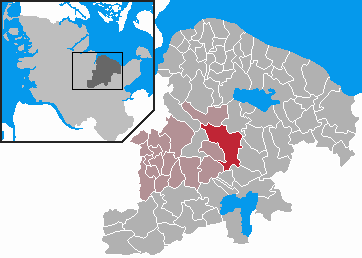 This map shows the area of the Gemeinde (municipality) Lehmkuhlen in the Kreis (district) Plön, Schleswig-Holstein, Germany.